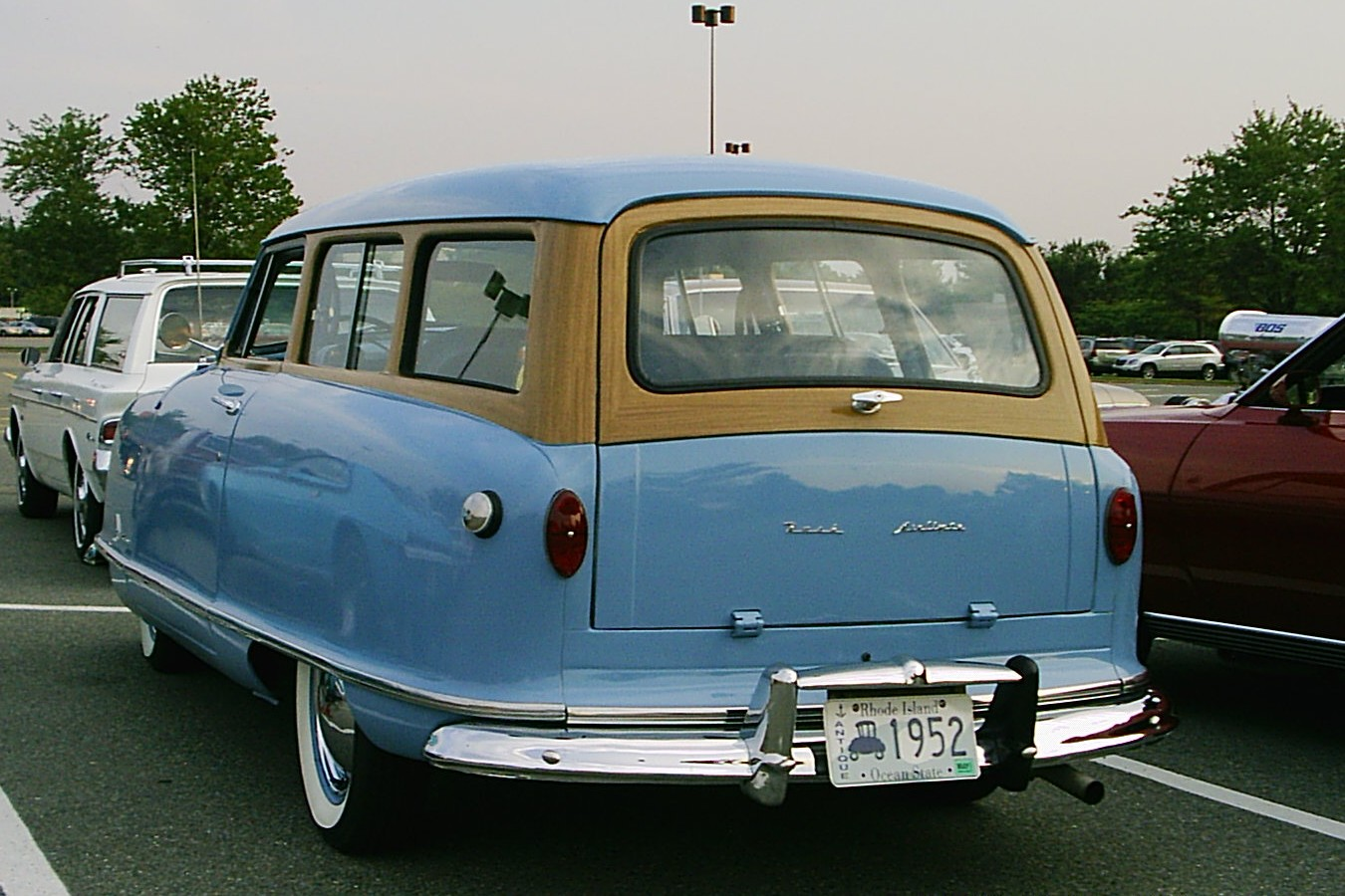 Nash Motors vehicle - 1952 Nash Rambler - blue 2-door wagon, rear view